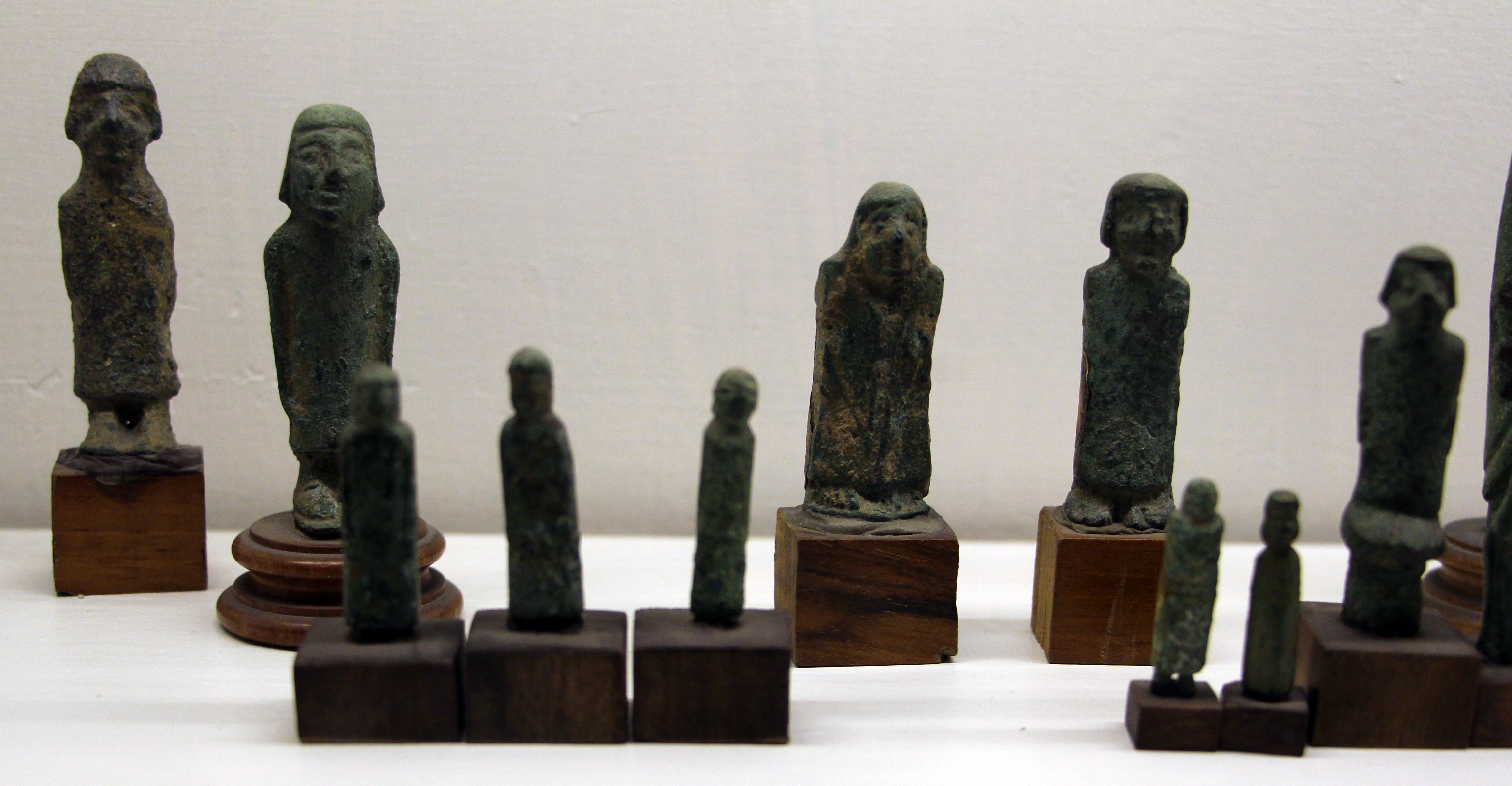 Etruscan bronze statuettes in the Museo archeologico nazionale (Florence)